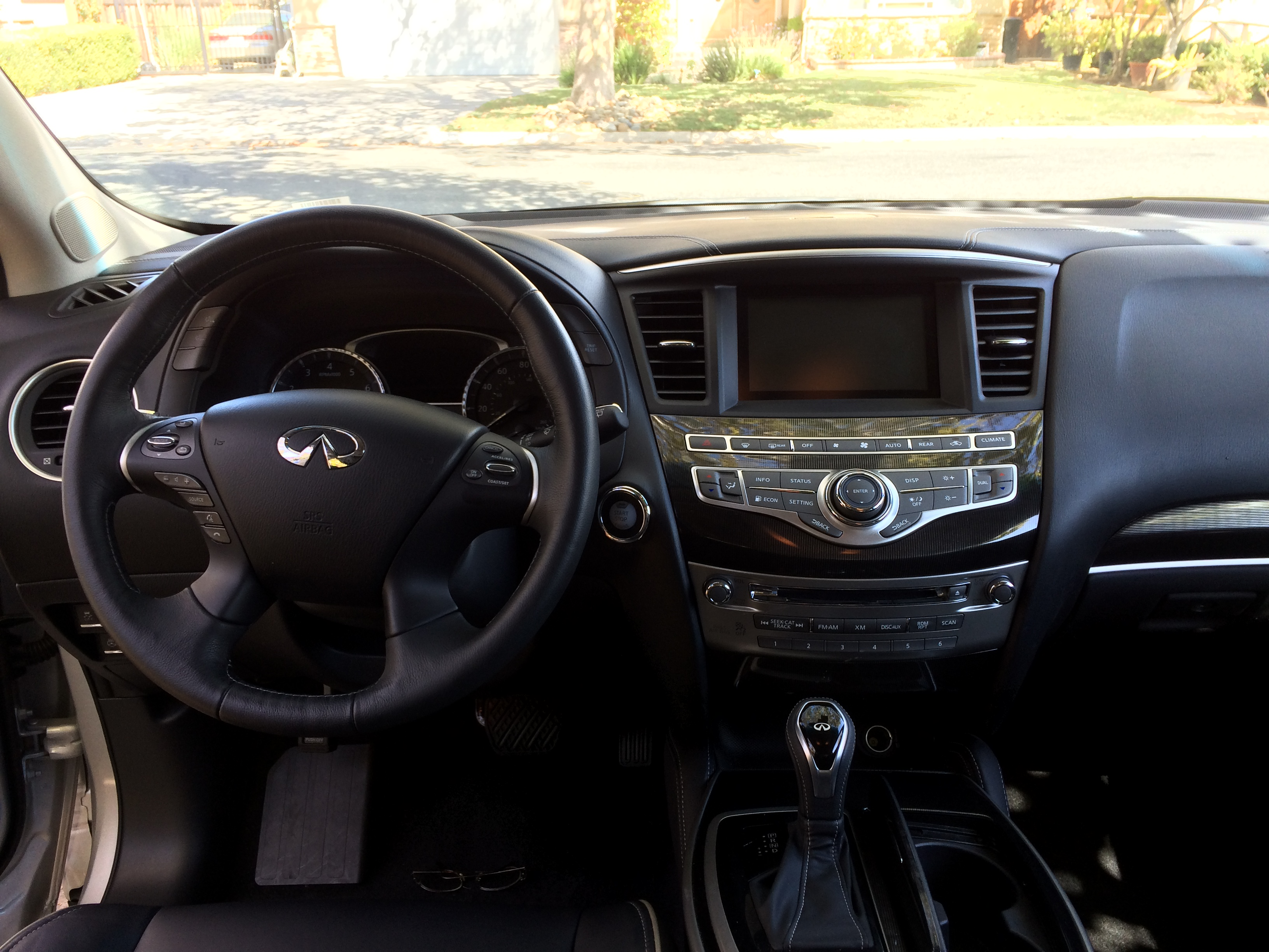 Dashboard of 2016 Infiniti QX60 AWD